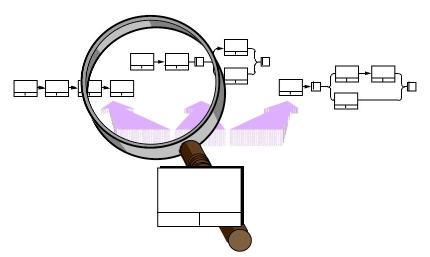 Figure 1-2 IDEF3 Captures Multiple Viewpoints of a Process